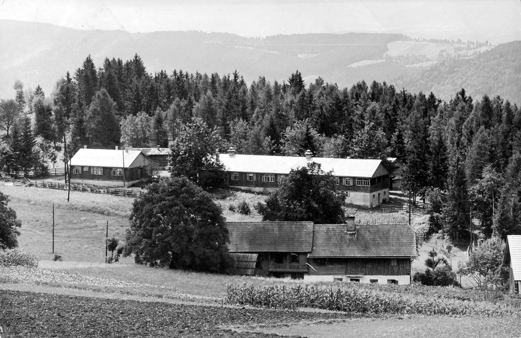 Originally Nazi Reich Labor Service camp (RAD camp 4 / 224) in Obermillstatt. The plant was built in 1940 and served as quarters for young women to the labor service confiscated, also League of German Girls (BDM) who had to work at the Obermillstätter farmers. After the Second World War the short British occupation troops were stationed. Subsequently, the building served as a summer camp for children from bombed cities. Today, at this point the new elementary school which was inaugurated in November 1977. Obermillstatt near Lake Millstatt (Millstätter See), district Spittal an der Drau in Carinthia / Austria / Middle Europe / European Union.